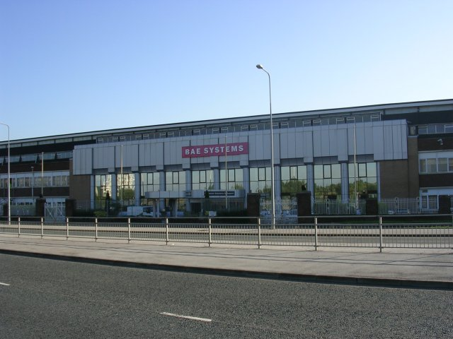 BAE Systems factory at Chadderton, Greater Manchester, England.